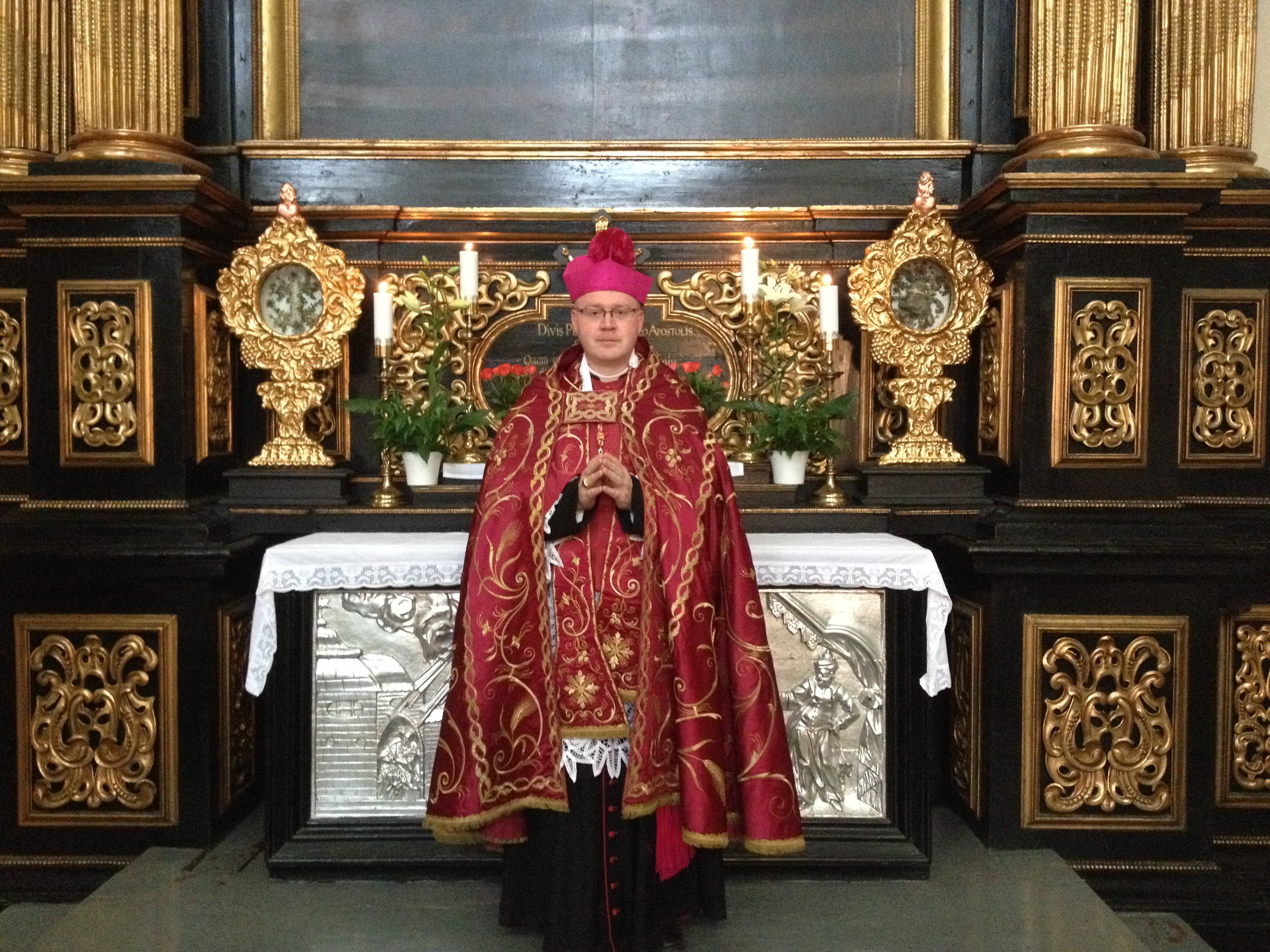 Martin Davídek (canon priest) in St. Stephen's cathedral in Litoměřice, Czech republic (June, 29 2014).